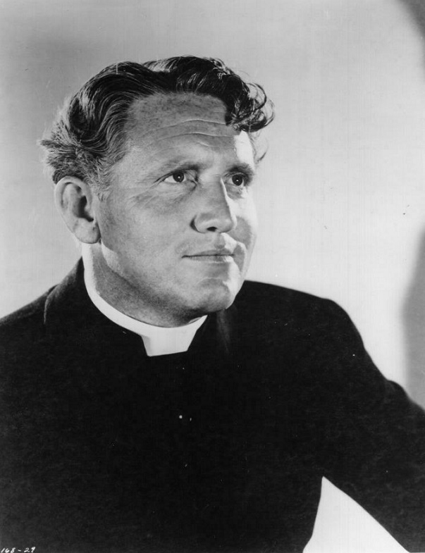 Spencer Tracy in the American biographical drama film Boys Town (1938). See also film still. No copyright notice.